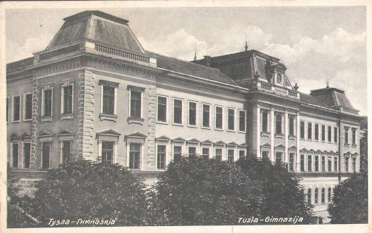 Pre-WWI postcard of Tuzla showing the Gymnasium